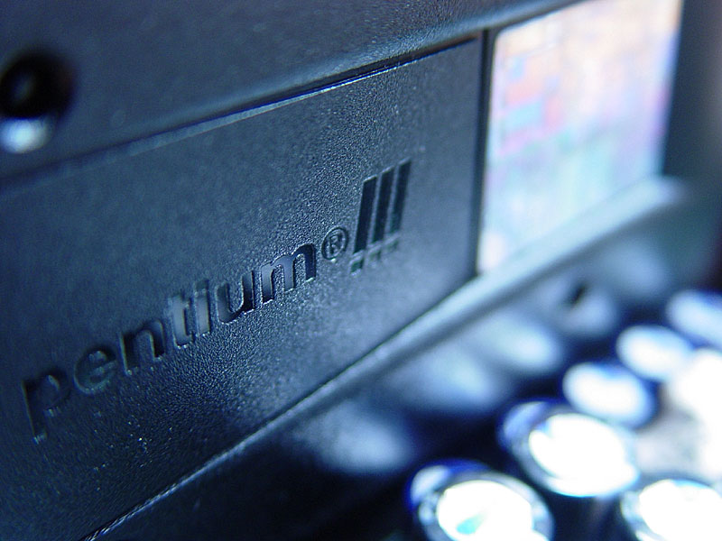 Pentium III chip mounted on a motherboard.